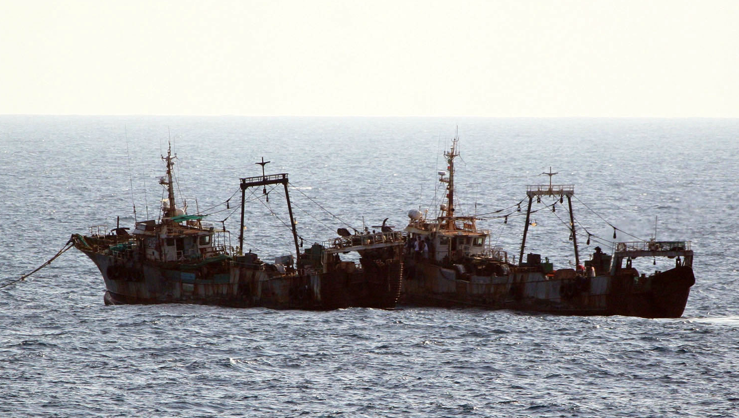 071104-N-6535P-001 INDIAN OCEAN (Nov. 4, 2007) - Tanzanian-flagged fishing trawlers Mavuno I and Mavuno II rendezvous with a U.S. Navy ship after being released from pirate control off the east coast of Somalia. The Navy will provide escort and humanitarian assistance to the crews. U.S. Navy photo by Intelligence Specialist 1st Class Edward L. Pruitt (RELEASED)